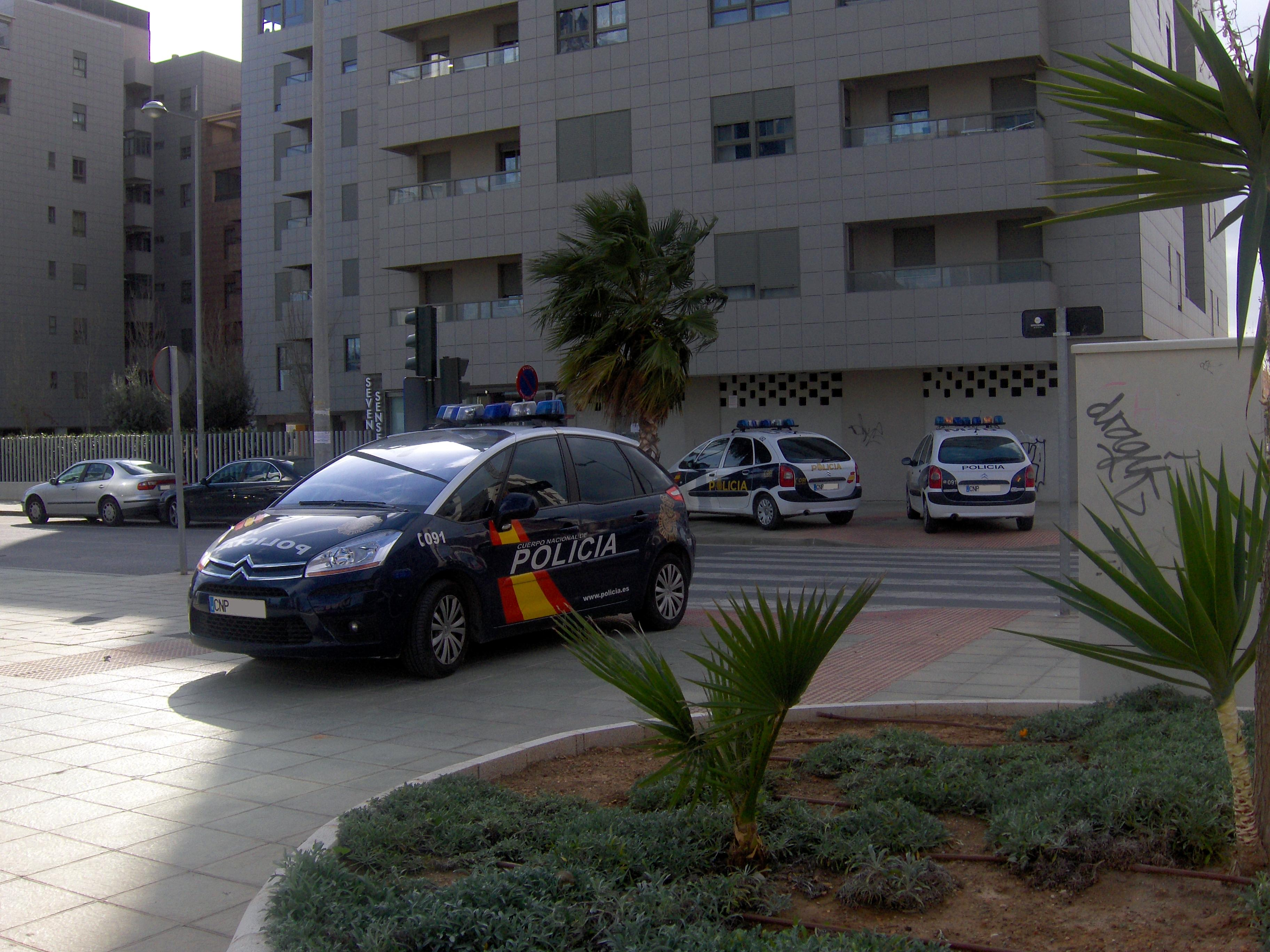 Citroen Xsara police car in Almeria, Spain, with "POLICIA" in mirror writing ("AICILOP").